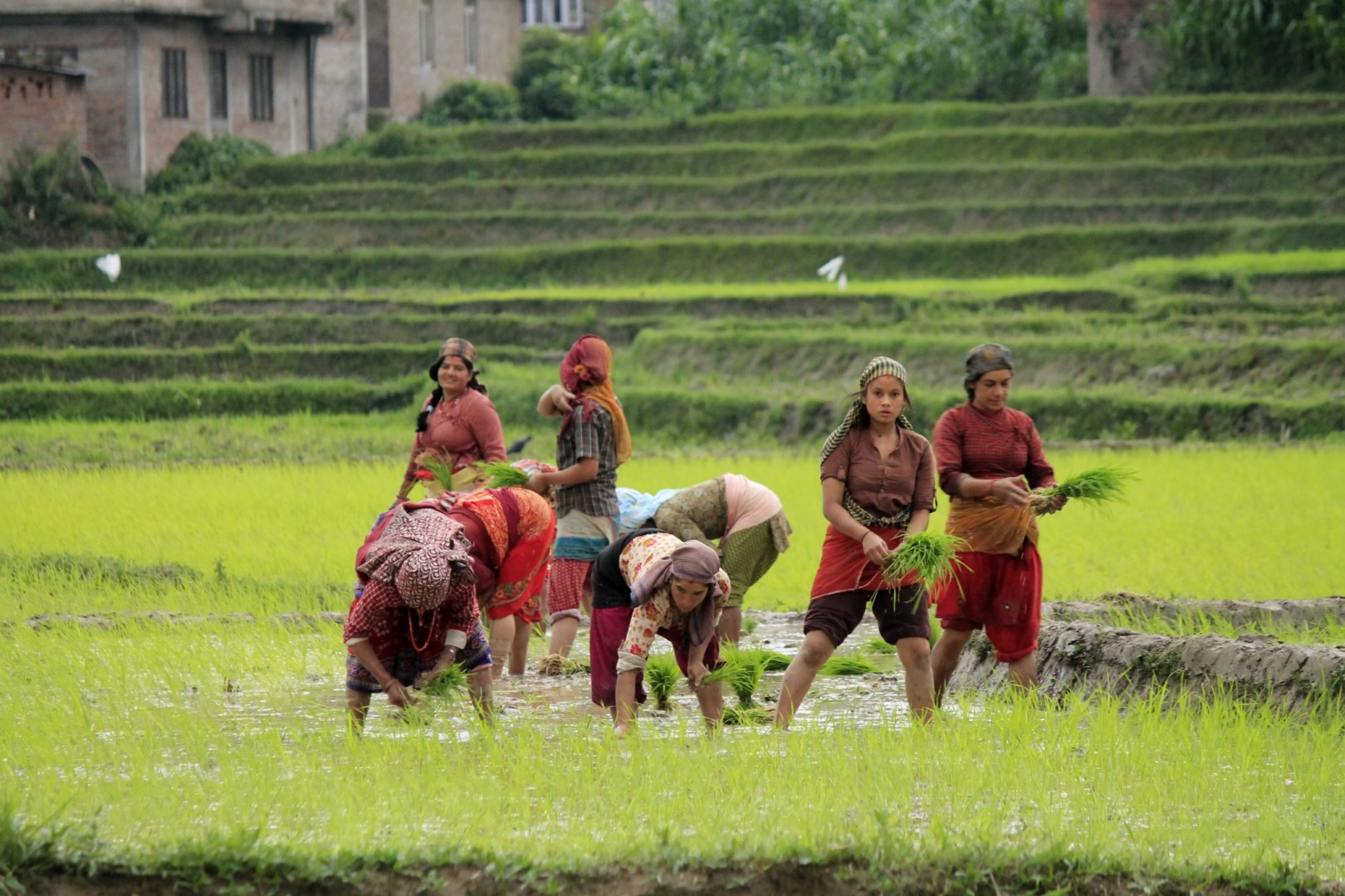 Women planting paddy in Banepa